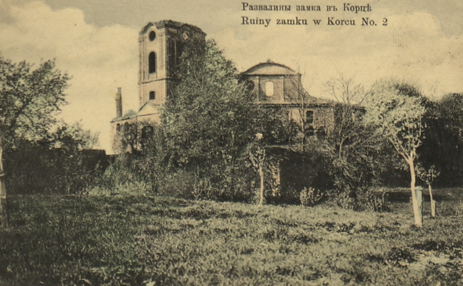 Korets Castle. Postcard.